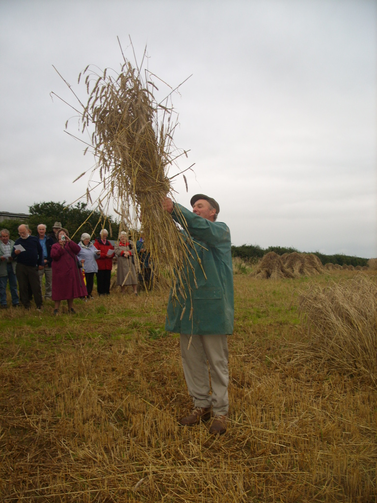 photo i took at Tremayne farm in Cornwall